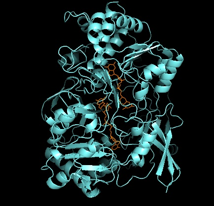 I made this image using Pymol